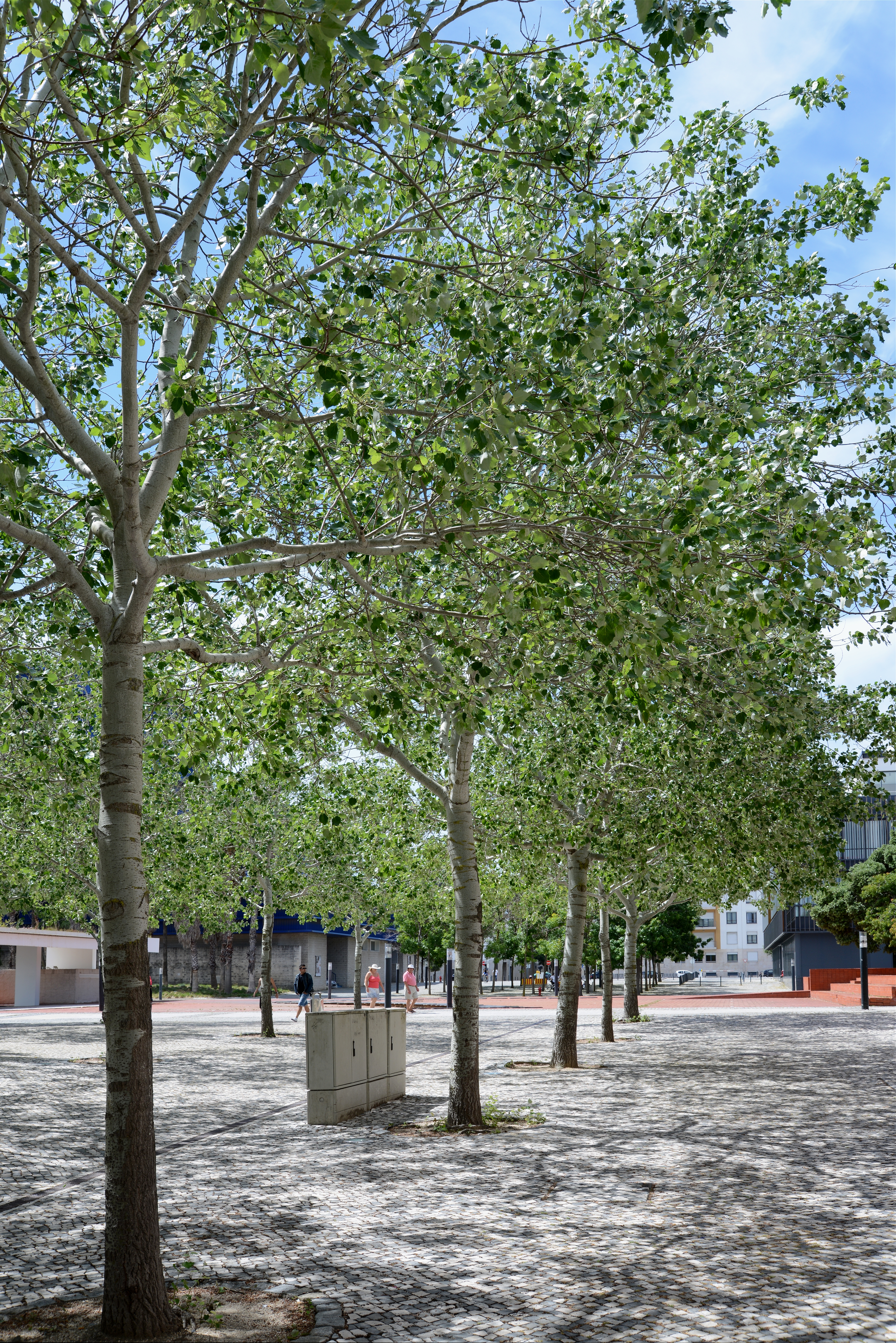 Lisbon, Parque da Nações. An alley of poplars